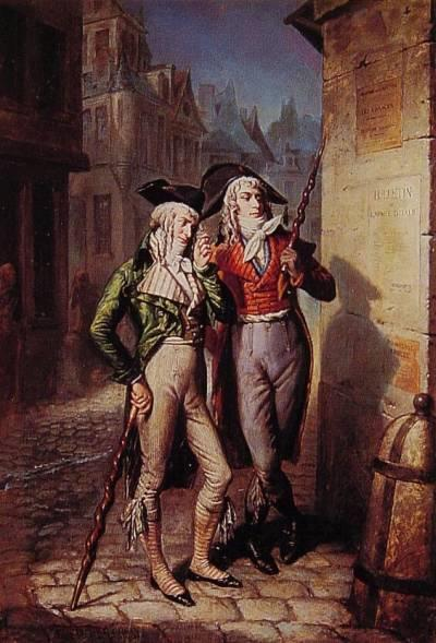 painting of Les Incroyables (Muscadins)